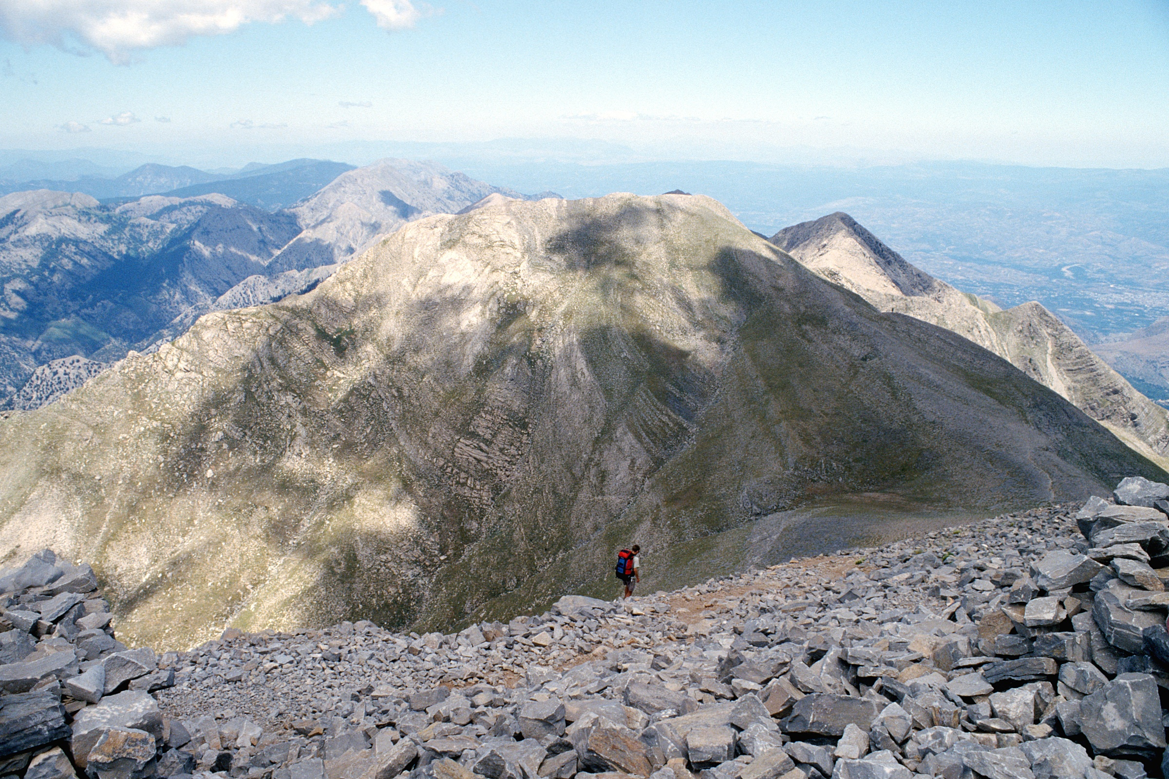 View over Taygetos mountains from the peak of Profitis Ilias